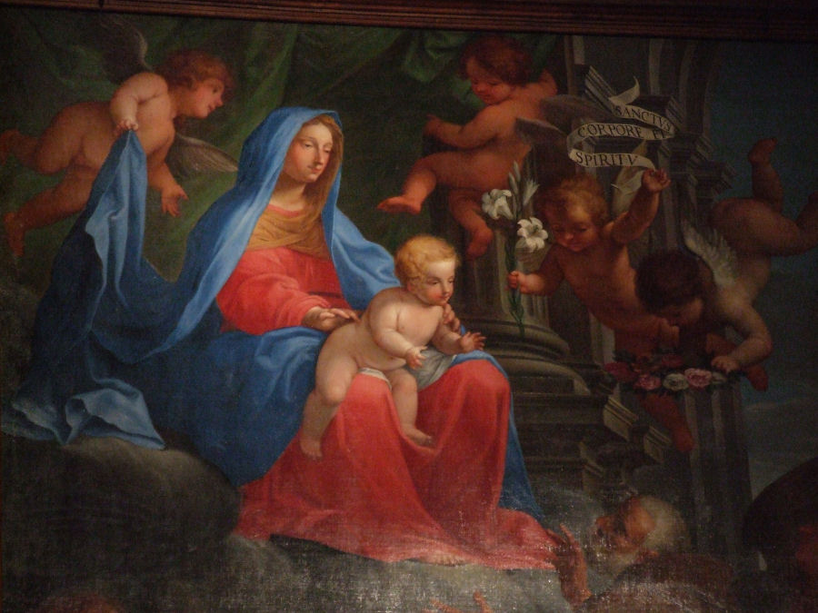 Sacro Monte di Orta is a Roman Catholic devotional complex in the comune of Orta San Giulio (Piedmont, northern Italy) on the summit of a hill known as San Nicolao, which faces the western short of Lake Orta.